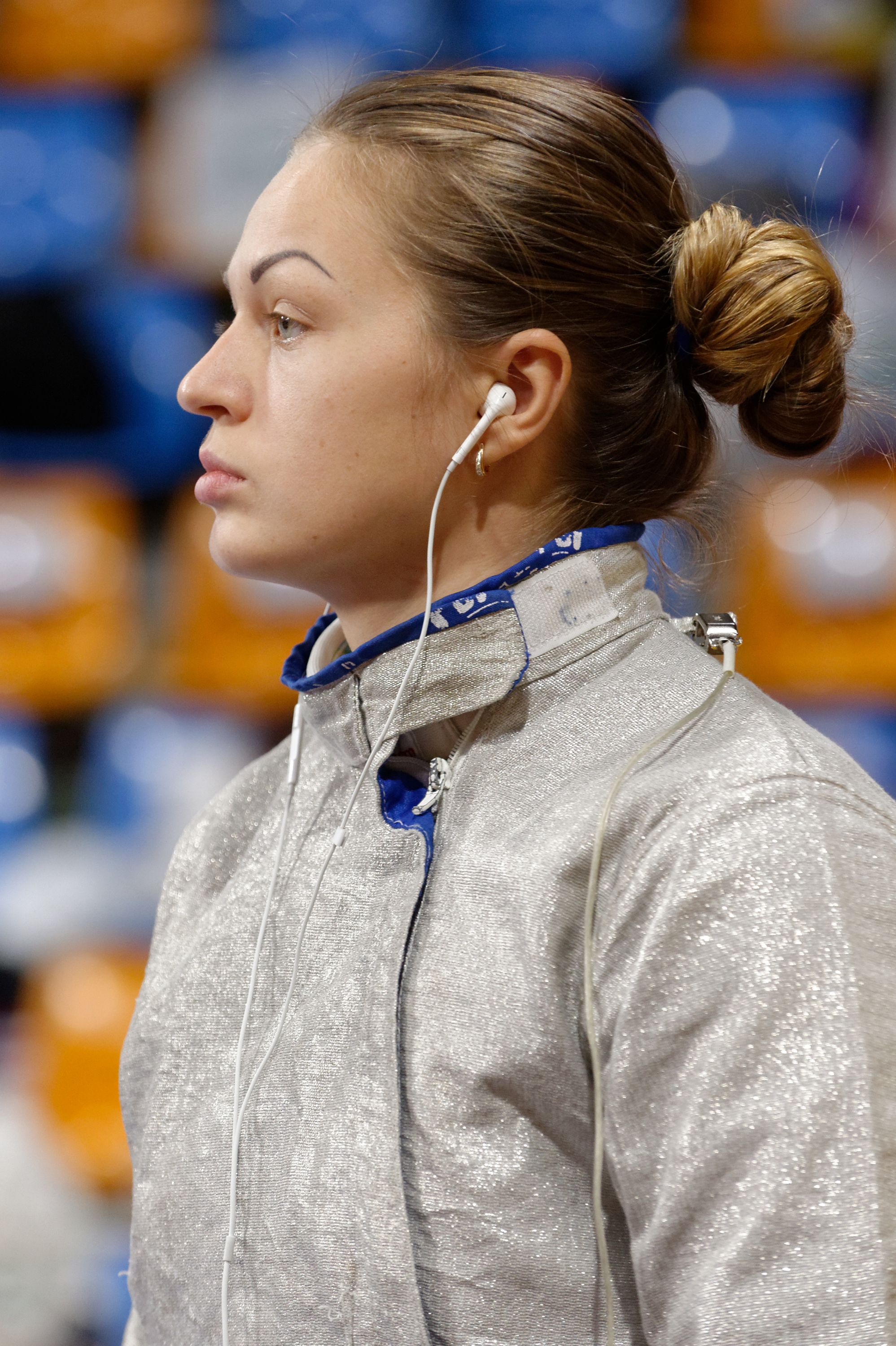 Ukraine's Olena Kravatska in qualifications for the 2015–16 Orléans World Cup in women's sabre.